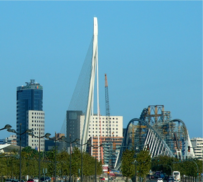 "Pont de l'assut de l'or" bridge and the "Ágora" in construction